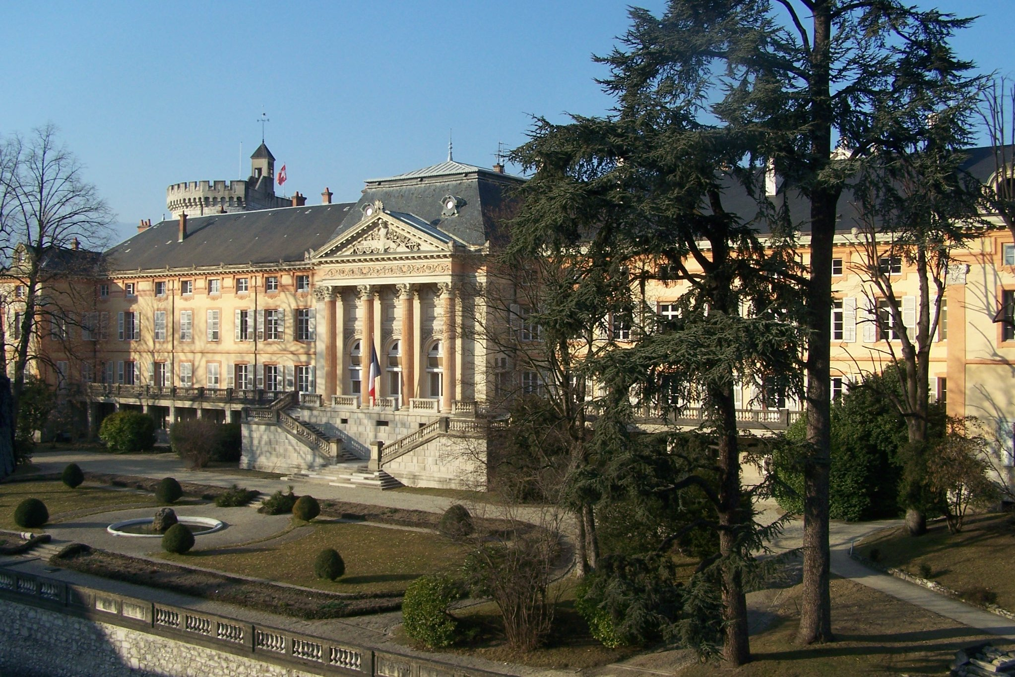 Prefecture of the French department of Savoie, in Chambéry.